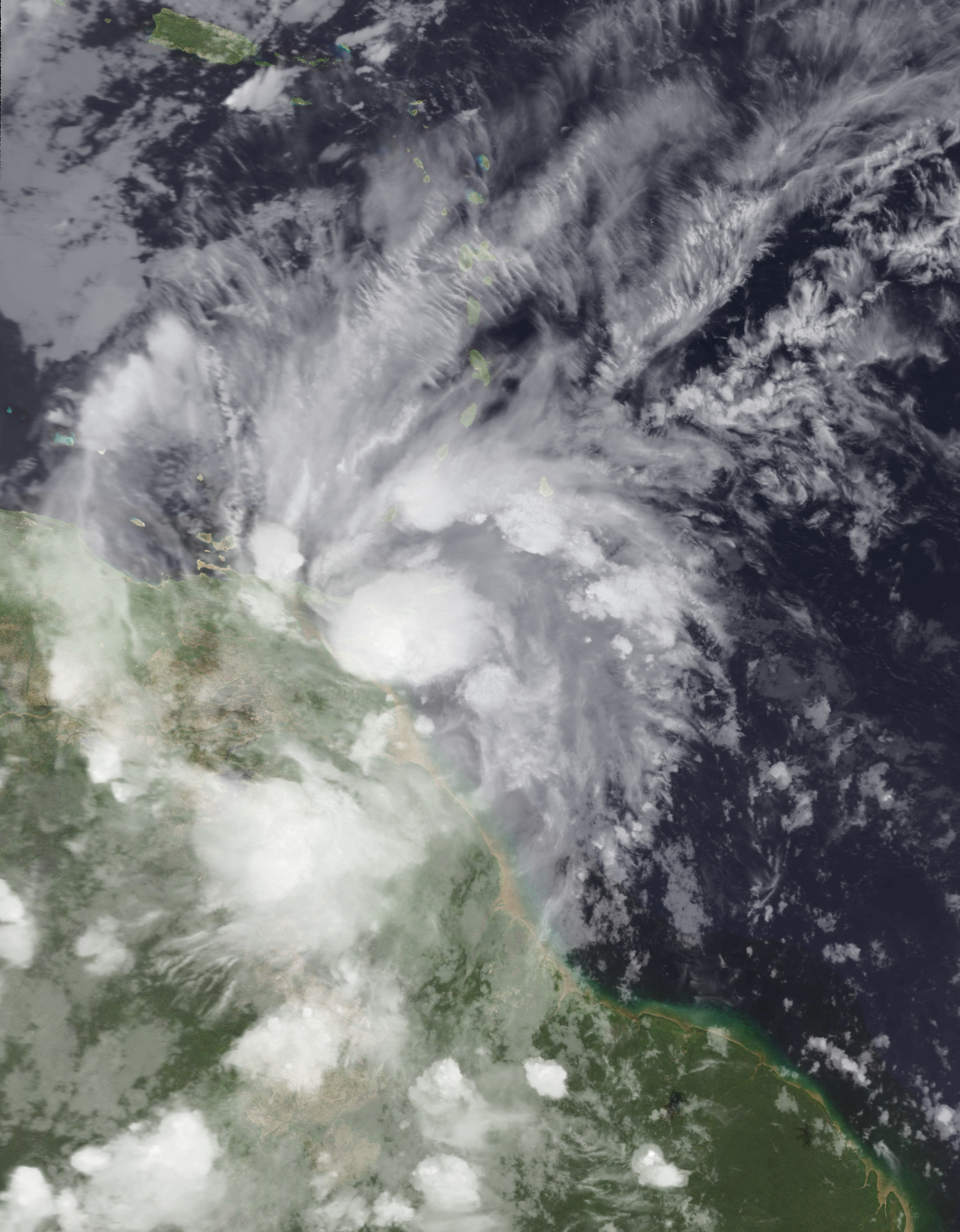 Tropical Storm Bret making landfall on Trinidad during the early morning hours of June 20, 2017.